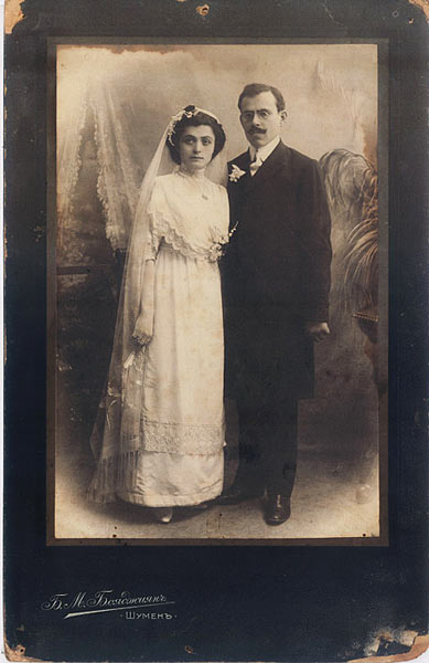 Stefanka and Yordan Trenkov